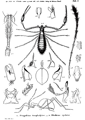 Tab. I showing : Stagobius troglodytes = Leptodirus hochenwartii Blothrus spelaeus = Neobisium spelaeum